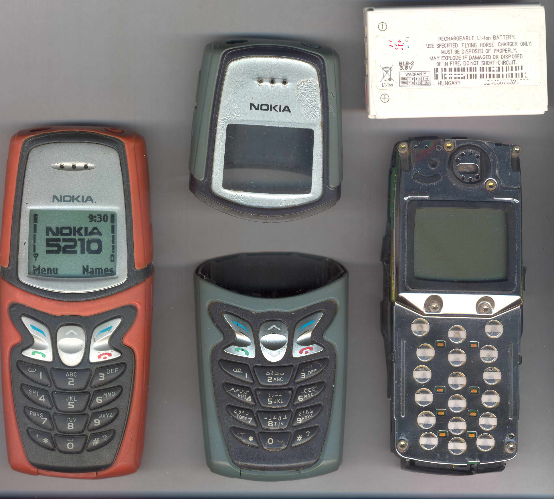 Nokia 5210. author Alaa Souqi